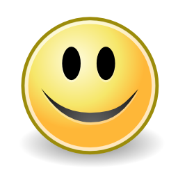 jerima